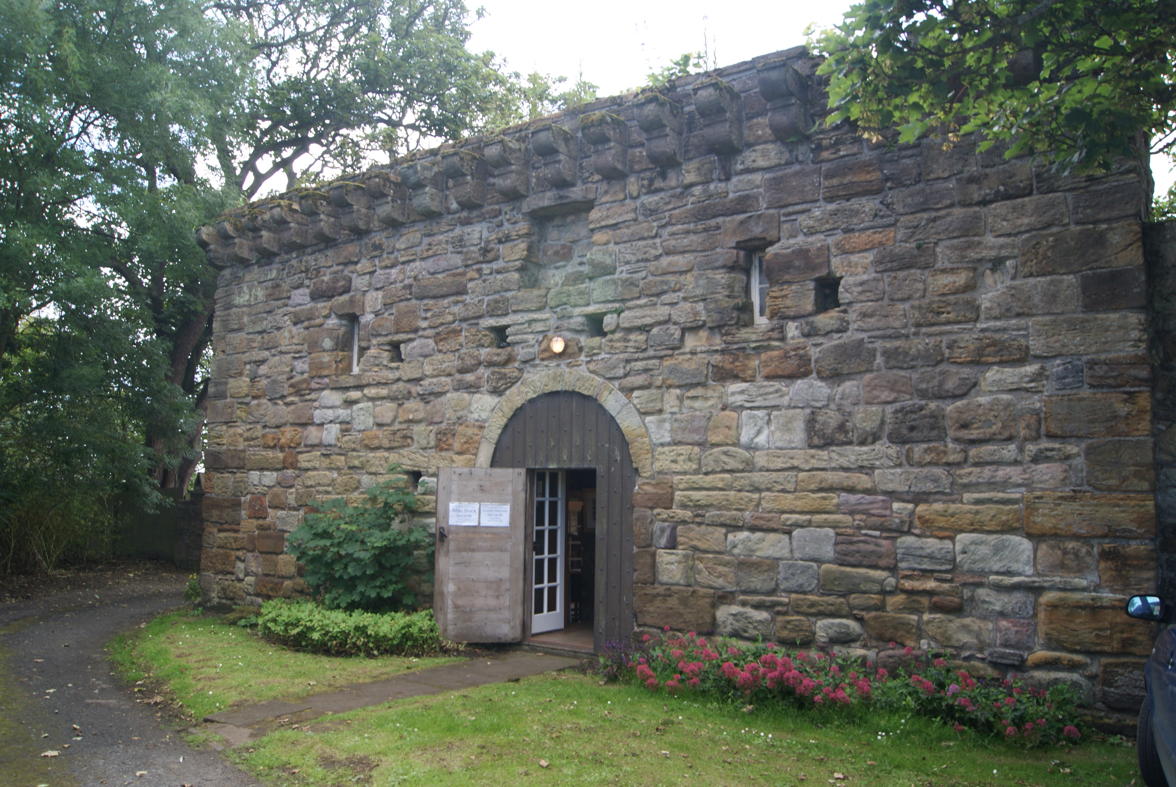 A picture taken in 2015 of the gatehouse the Medieval Priory of Pittenweem, Scotland